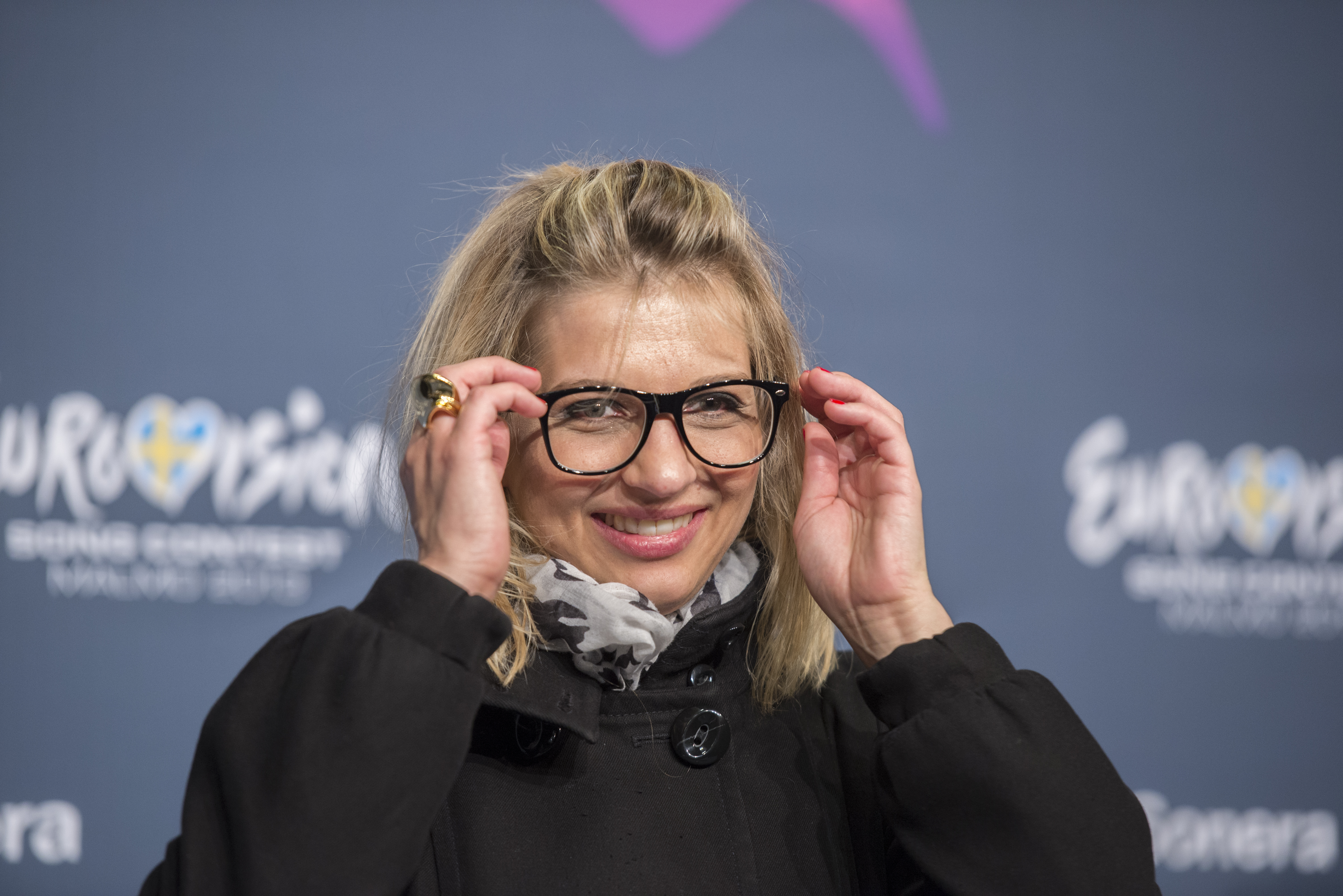 Amandine Bourgeois at a press conference during the Eurovision Song Contest 2013 in Malmö. (Help translate this text)